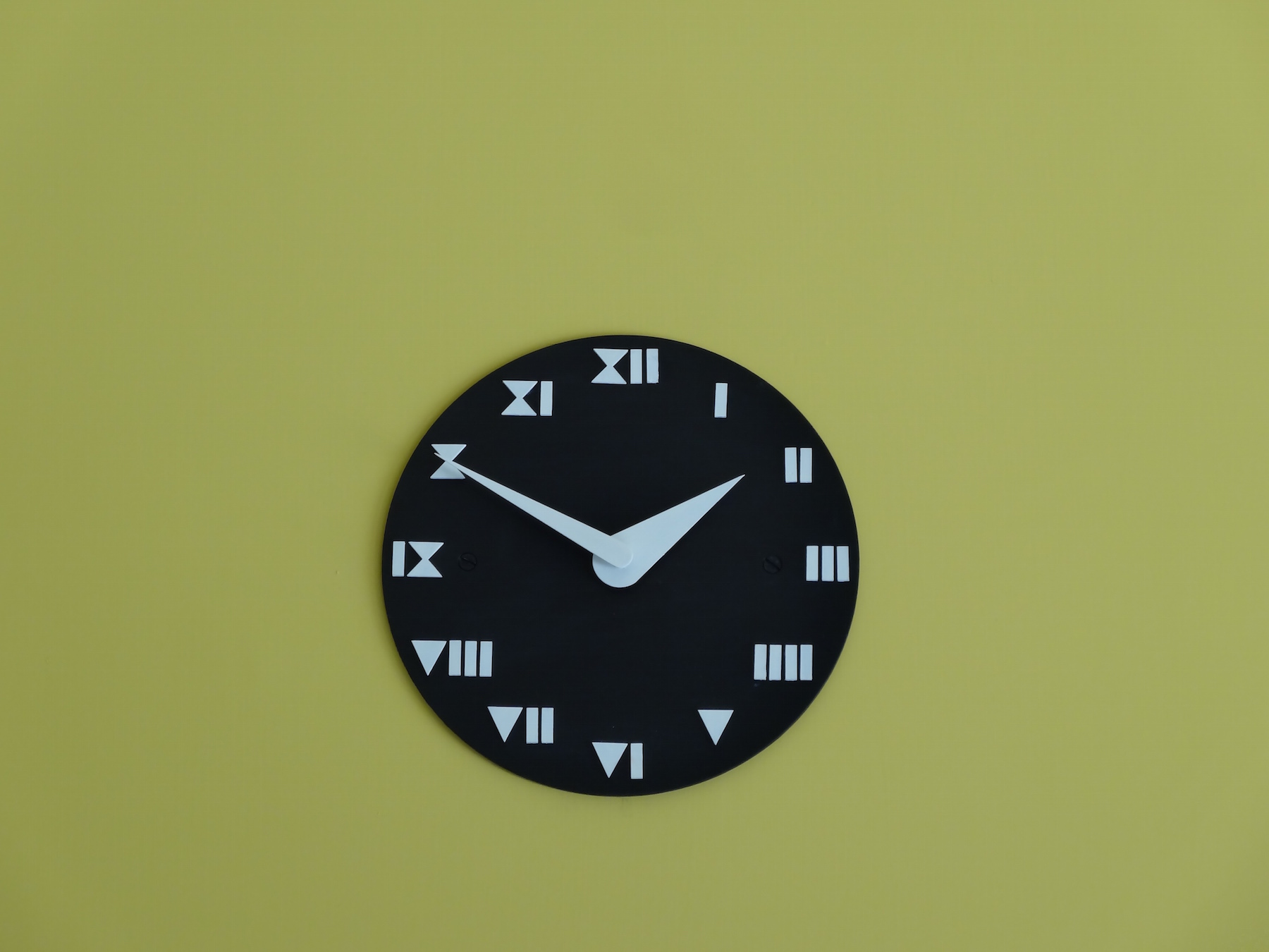 Villa Cavrois clock .